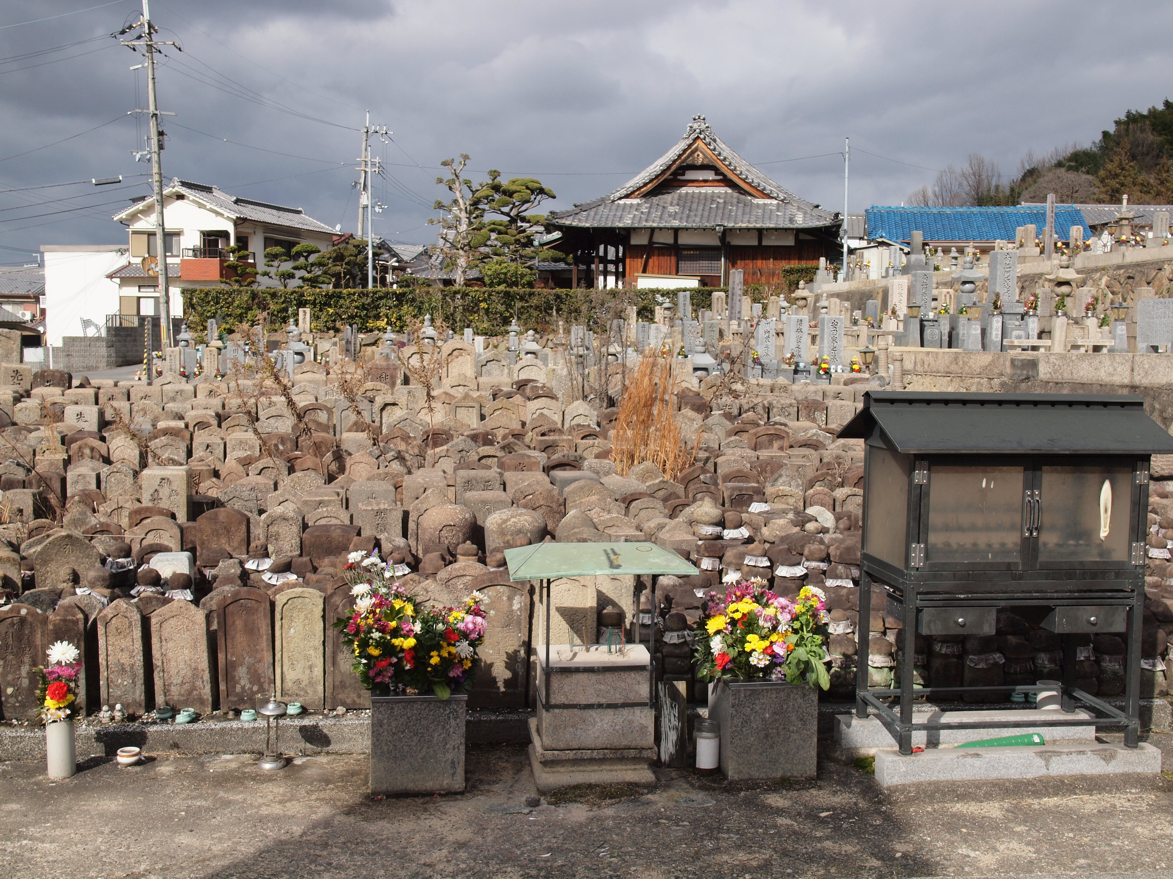 Raigouzi Bochi (Cemetery) in Yao, Osaka